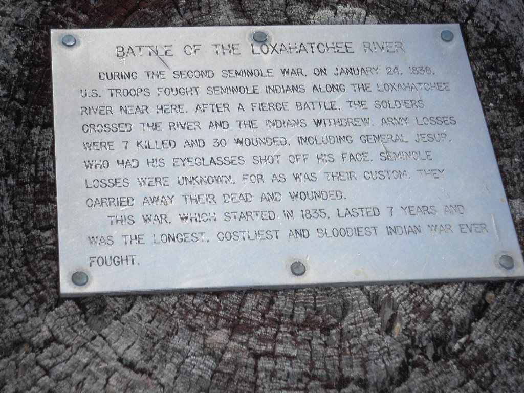 Jonathan Dickinson State Park: Between swimming area and boating area on Loxahatechee River NW Fork: Detail of tree stump plaque on Battle of the Loxahatchee River on January 24, 1838